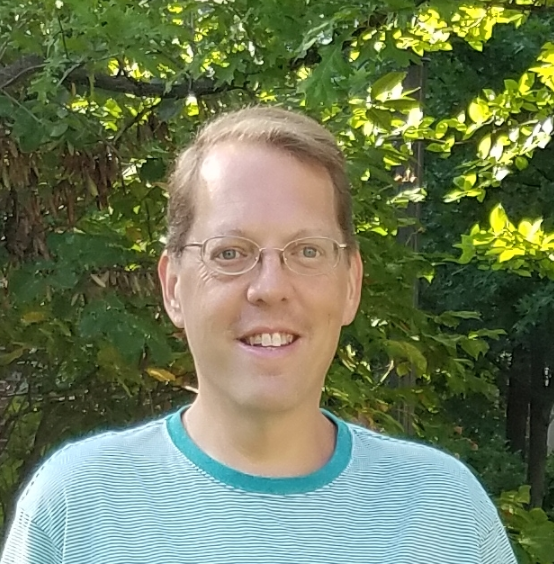 David Bader in 2017